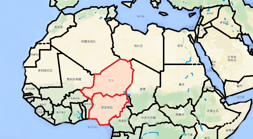 (Atyap people's location)